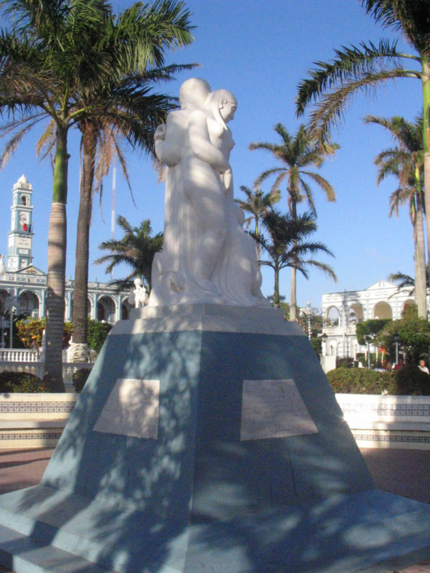 Monument to the Sotavento Heroes